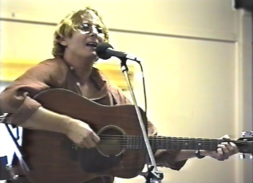 Alistair Hulett (Scottish/Australian singer-songwriter) on stage at the 1996 Tamar Valley (George Town) Folk Festival (Tony Rees photograph)